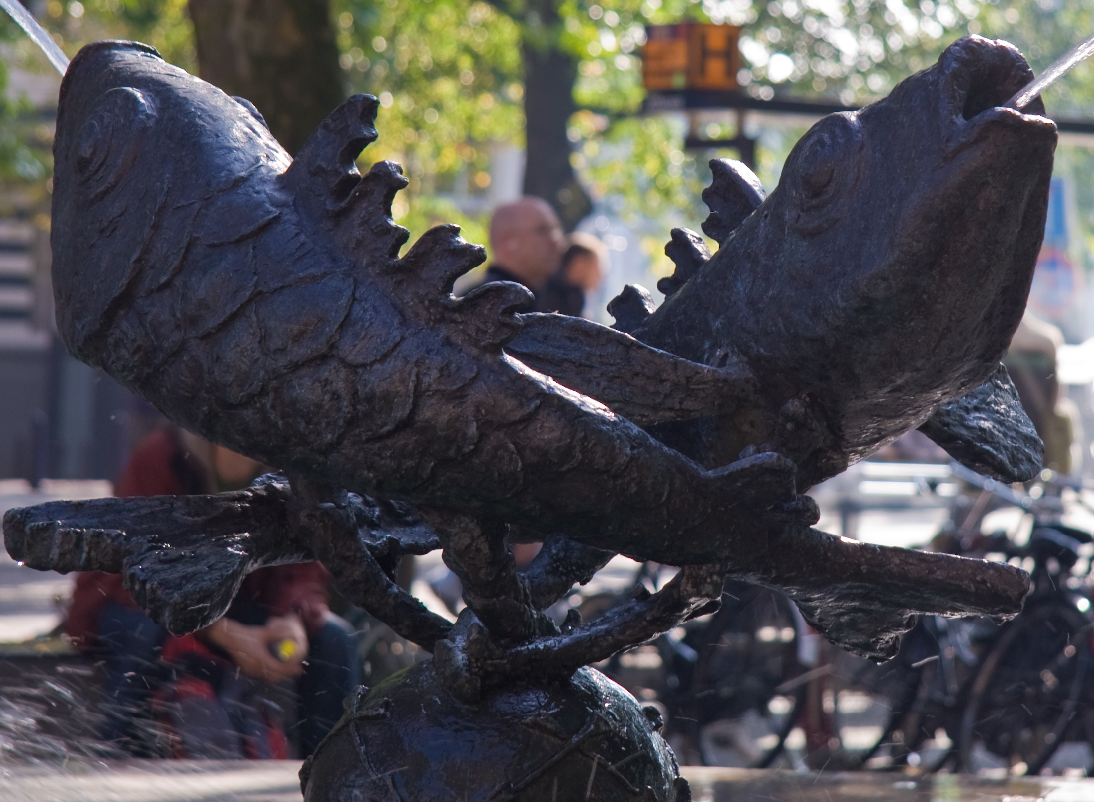 Fountain Fishes by Gerarda Rueter, Leidseplein in Amsterdam/The Netherlands